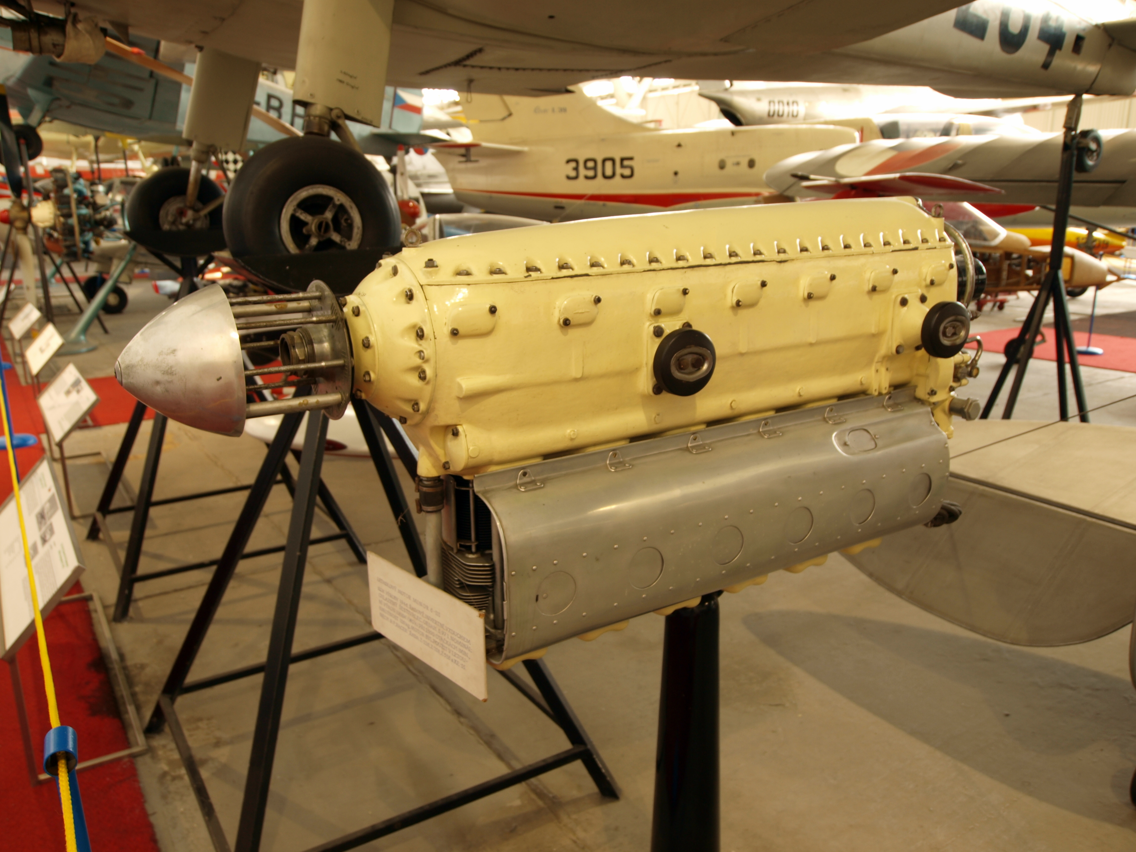 Minor 6-III